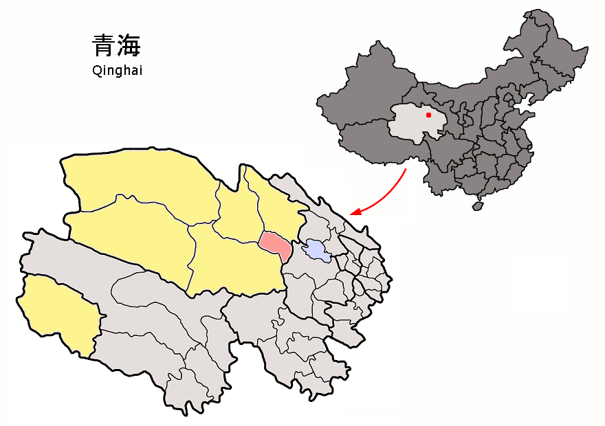 Location of Wulan (Ulan) County (pink) and Haixi Prefecture (yellow) within Qinghai province of China Map drawn in september 2007 using various sources, mainly : Qinghai province administrative regions GIS data: 1:1M, County level, 1990 Qinghai Counties map from "Plateau Perspectives" (the limits of some county-level subdivisions may not be accurate)